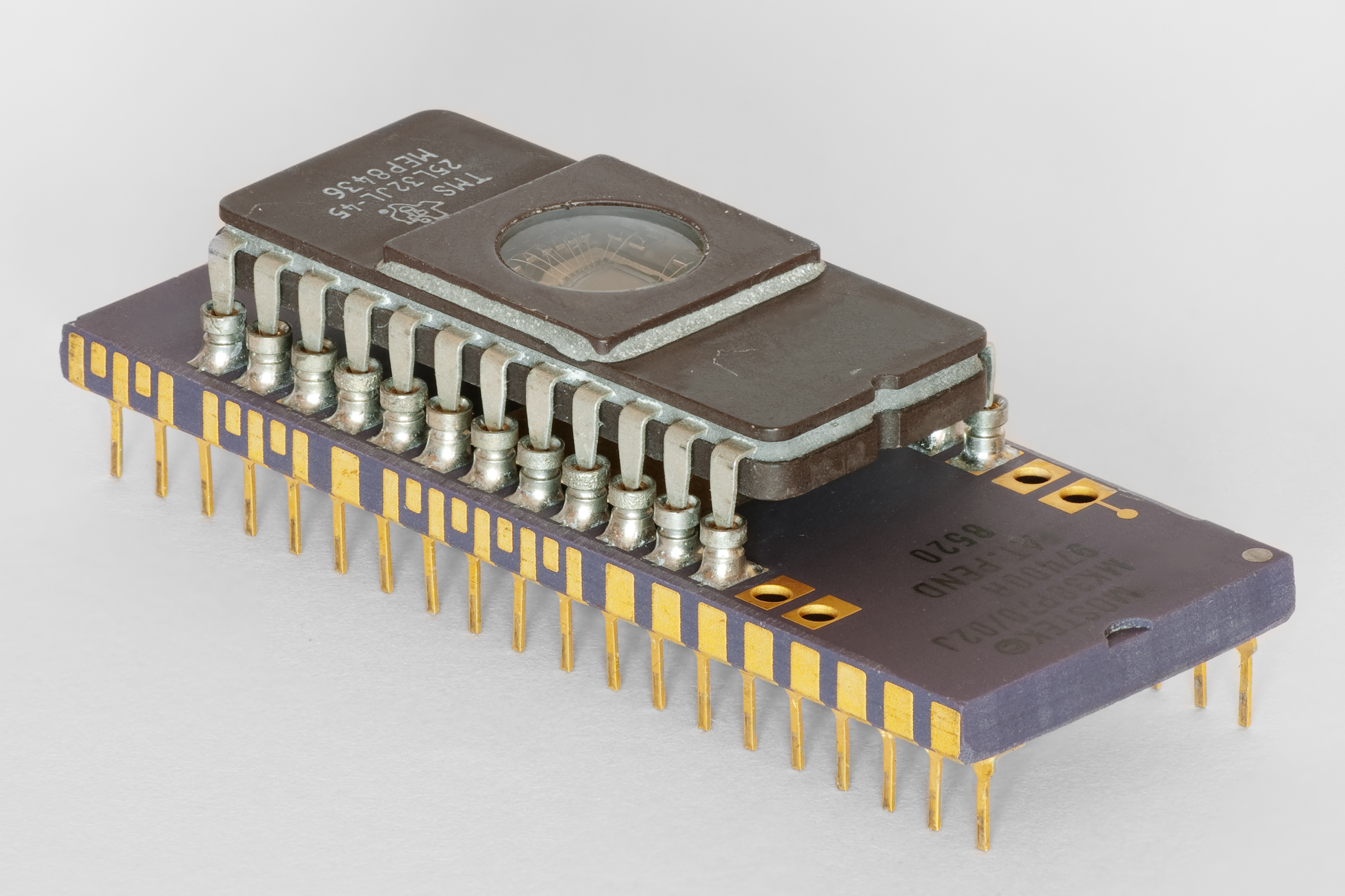 8-bit Microcomputer: Mostek MK38P70 Date code: 8520 EPROM: Texas Instruments TMS 25L32-45 Date code: 8436